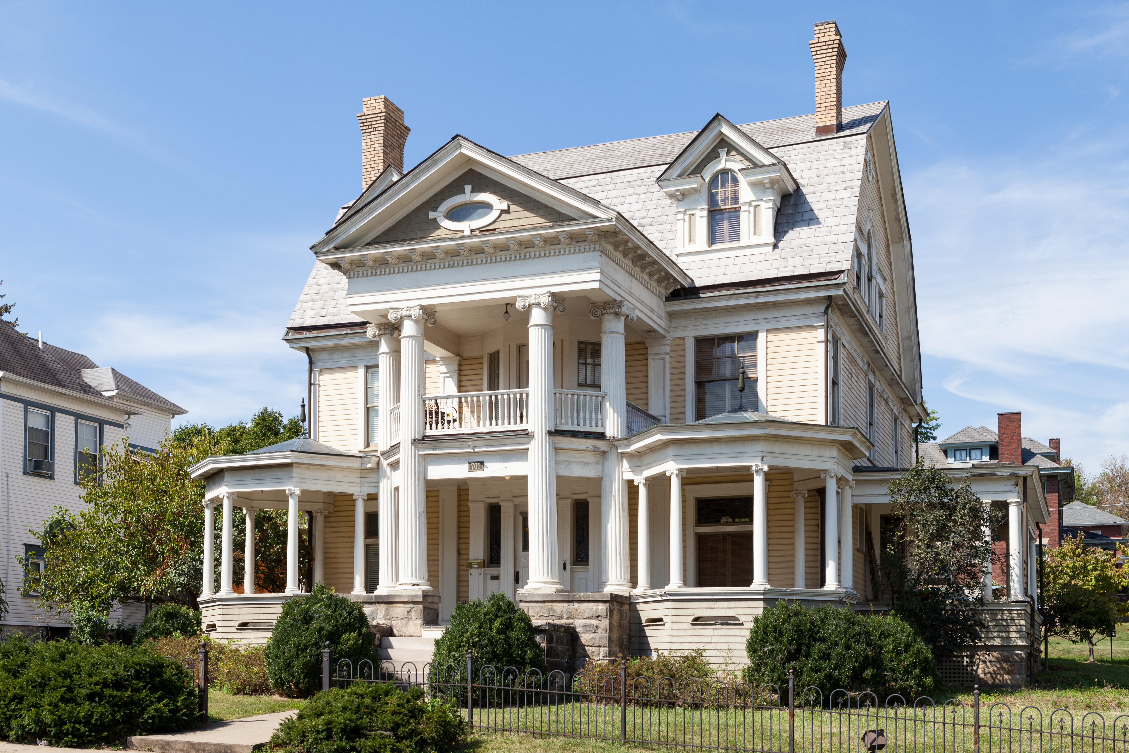 The Hutchinson Mansion at 701 Benoni Avenue, a circa 1900 house, part of the Fleming-Watson Historic District in Fairmont, West Virginia. The east facade.